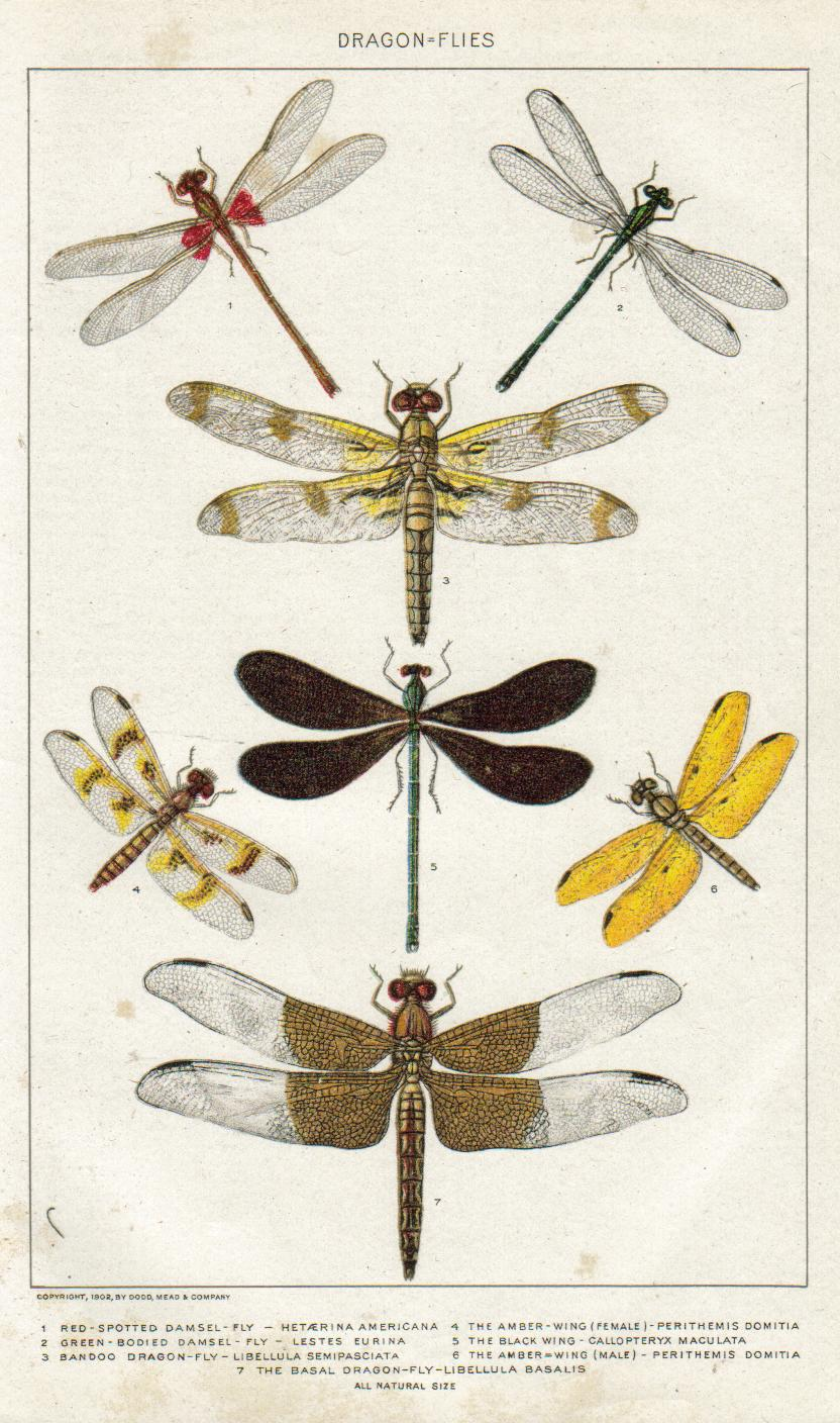 Painting OK Hetaerina americana Lestes eurina ? OK Libellula semifasciata OK Perithemis domitia female OK Calopteryx maculata OK Perithemis domitia male Libellula basalis ?